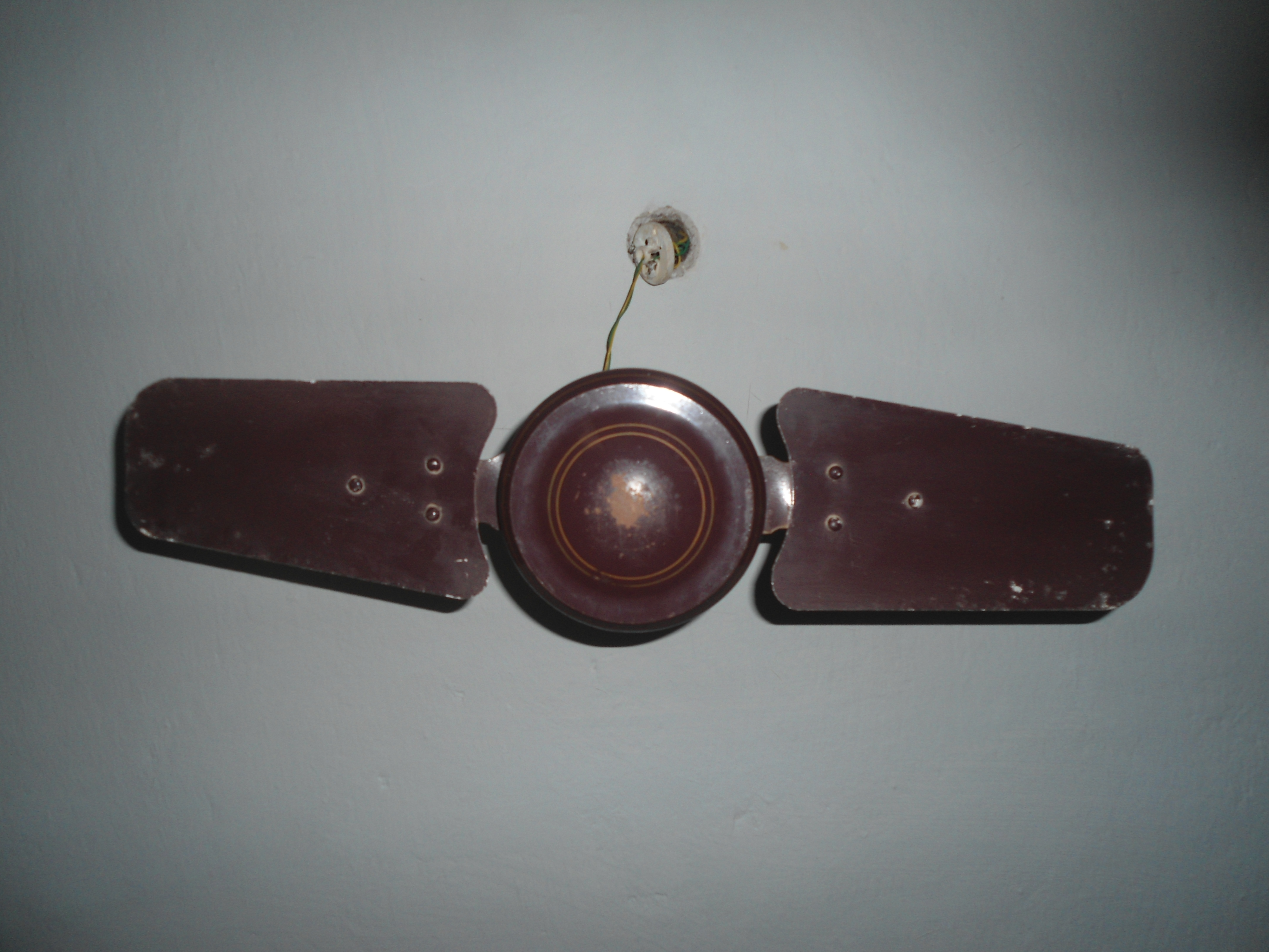 A Dual blade Ceiling fan in Yeleswaram, East Godavari district, Andhra Pradesh, South India